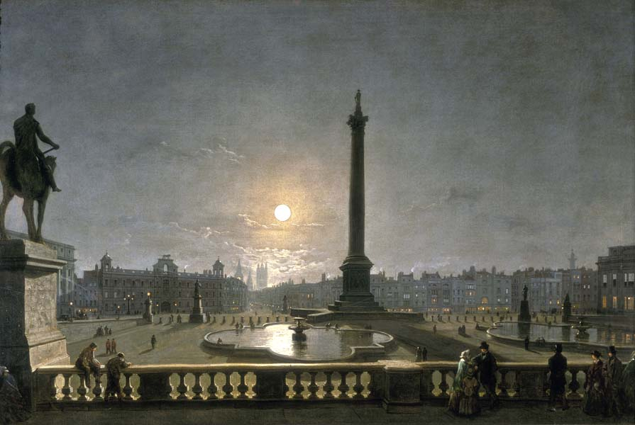 Trafalgar Square by Moonlight